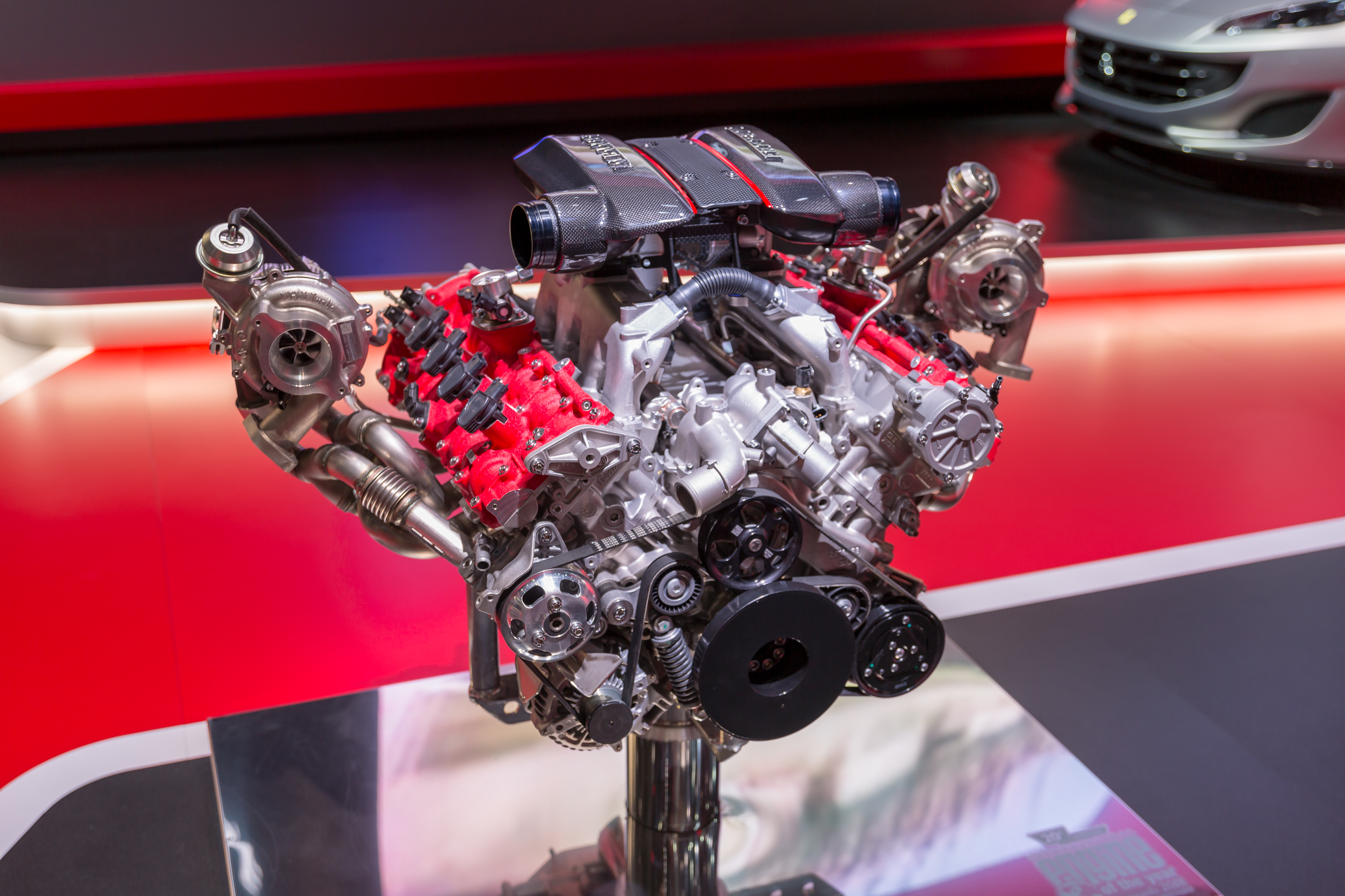 Ferrari Tipo F154CD engine used in Ferrari 488 Pista. Shown at Mondiale Paris Motor Show 2018. 720 PS (530 kW; 710 hp) at 8000 rpm.